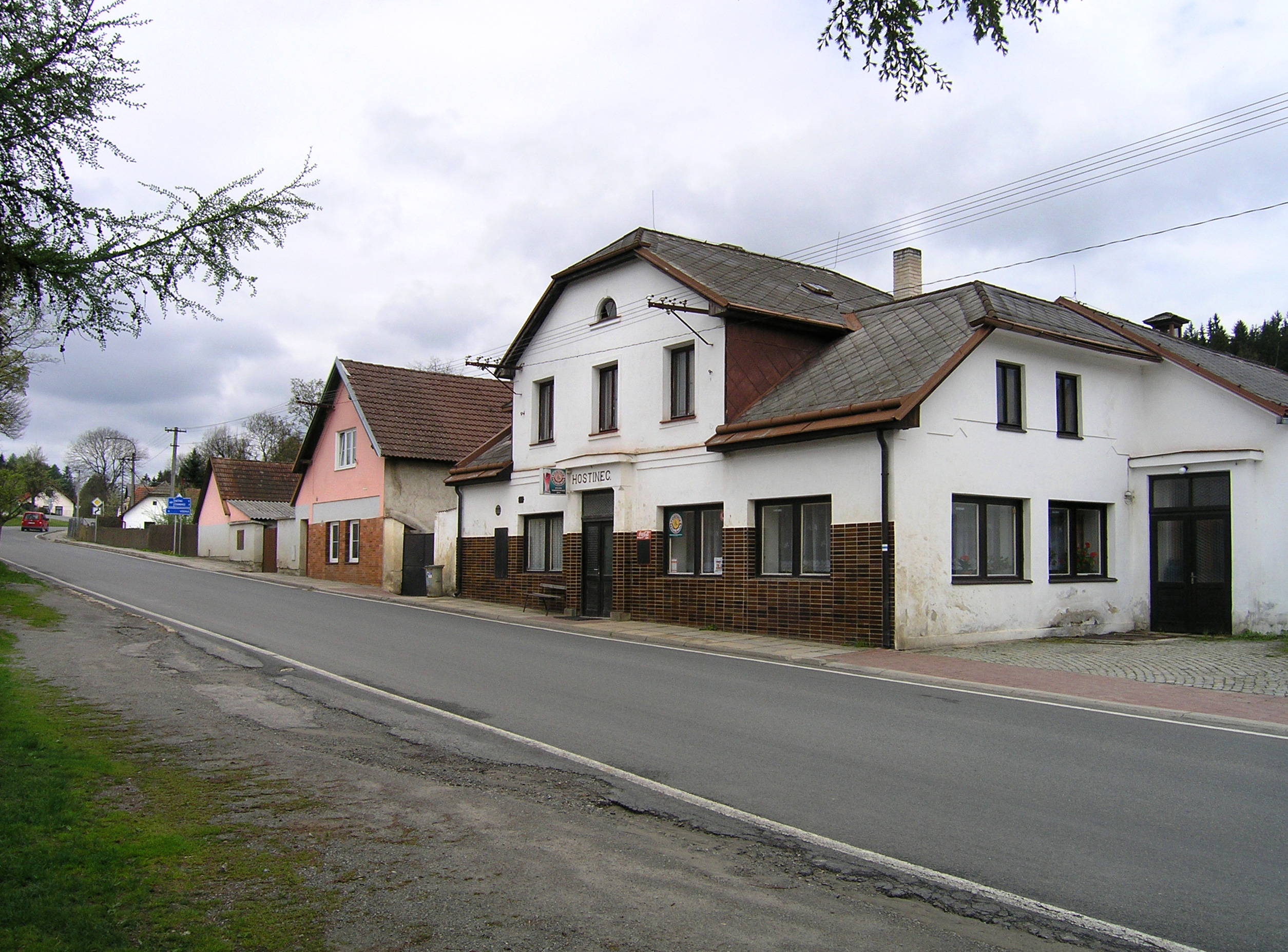 Restaurant in Včelnička village, Czech Republic